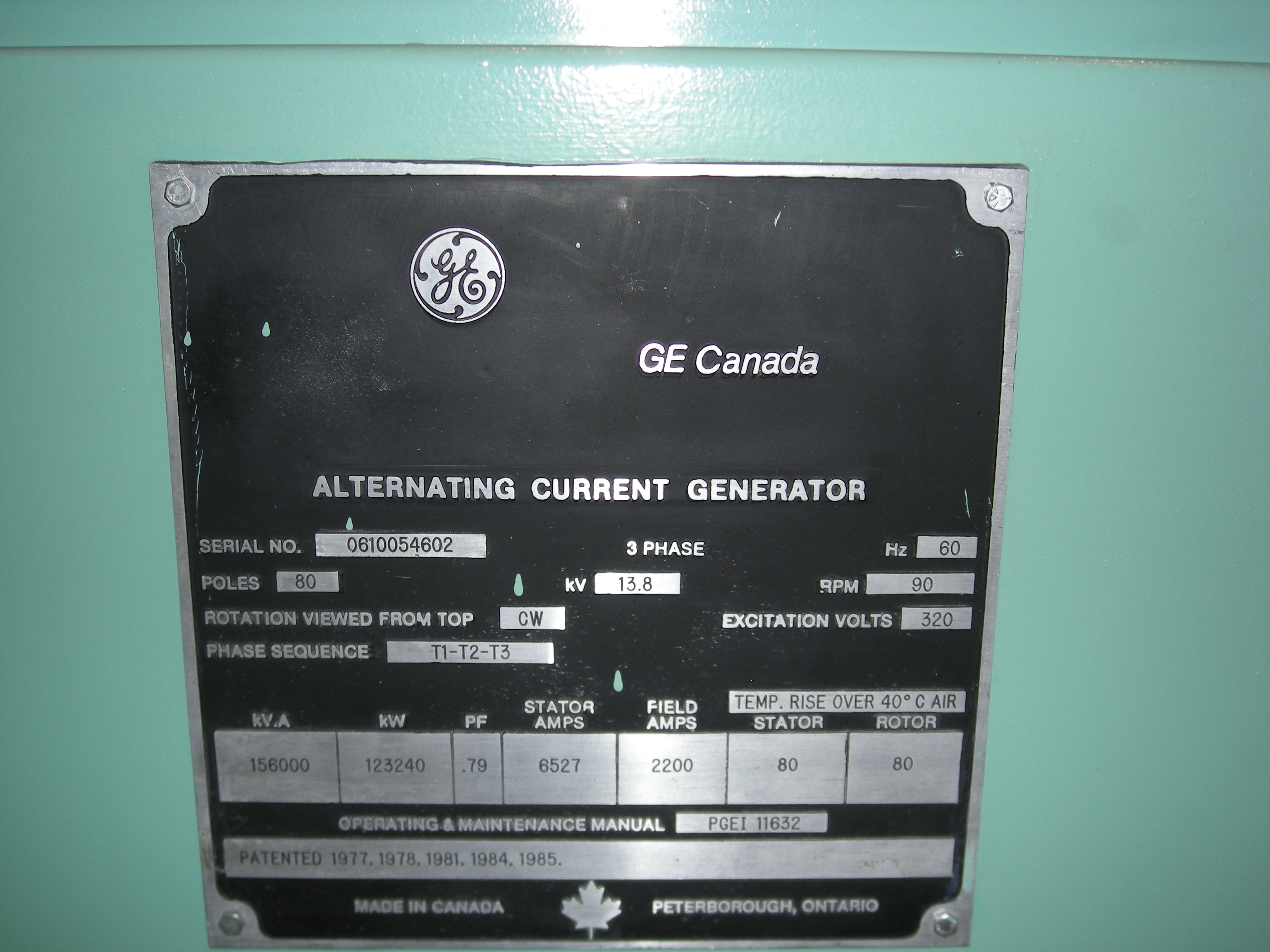 Label on a GE Canada AC Generator at the Limestone Generating Station in Manitoba, Canada